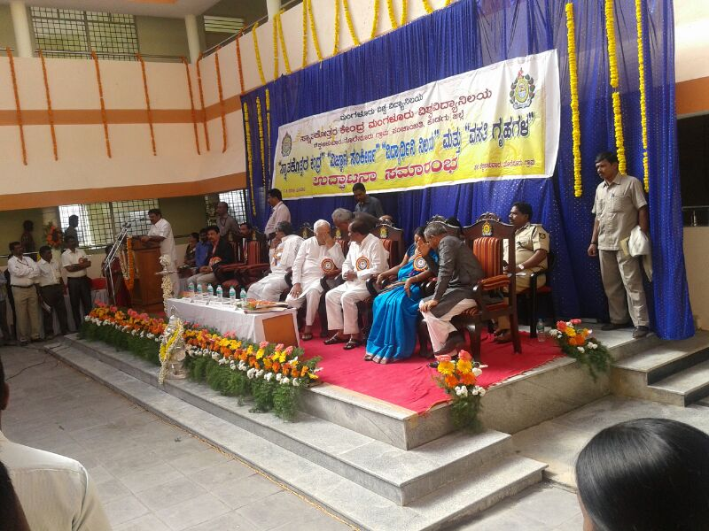 Appachu Ranjan speaking at the 80th [Kannada_Sahitya_Sammelana]